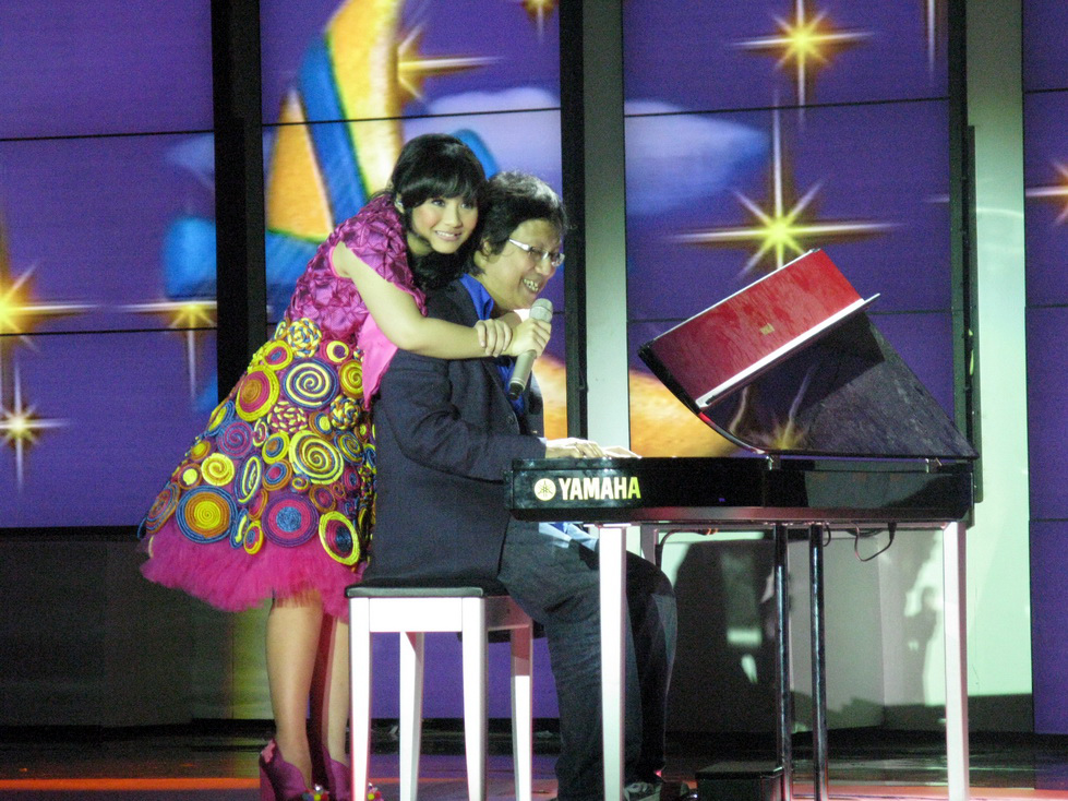 Father/Daughter Erwin and Gita Gutawa on stage during the Kotak Musik Gita Gutawa Concert